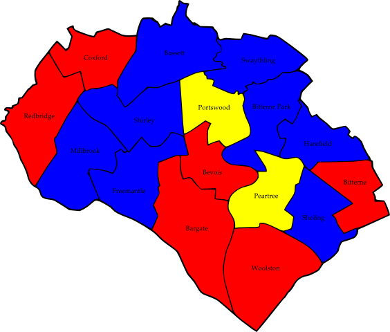 A map of the results of the 2007 Southampton Council election. Colour legend by wards won: Conservative party Labour party Liberal Democrats